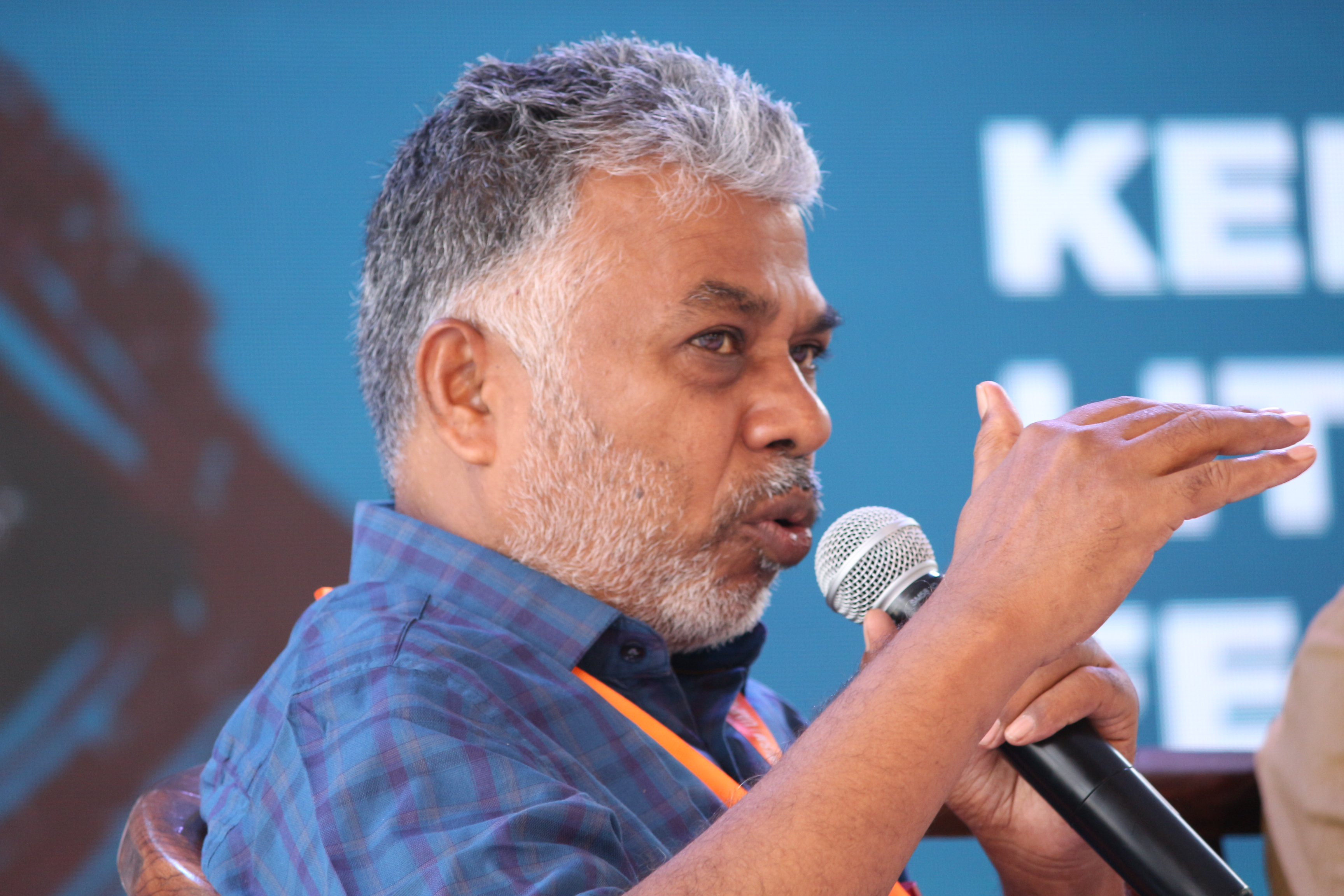 Perumal Murugan at Kerala Literature Festval in 2018